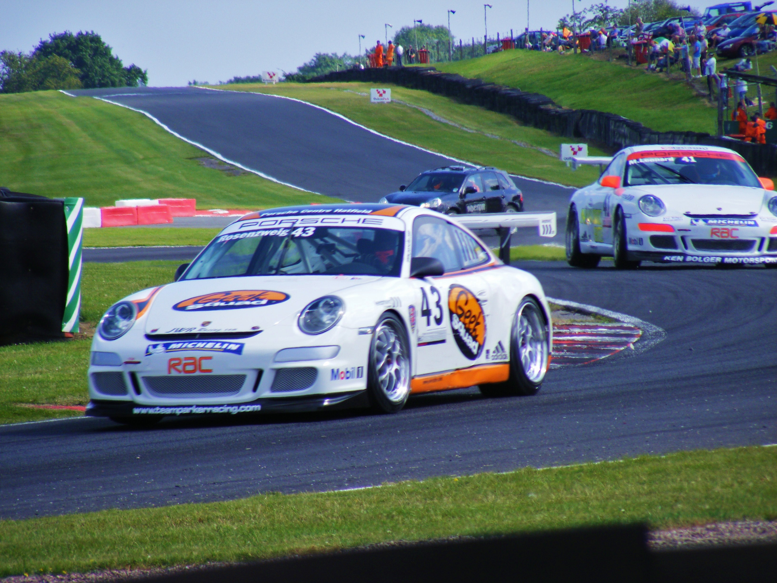 Jake Rosenzweig goers through Knickerbrook corner at Oulton Park during the first of two races at the meeting.